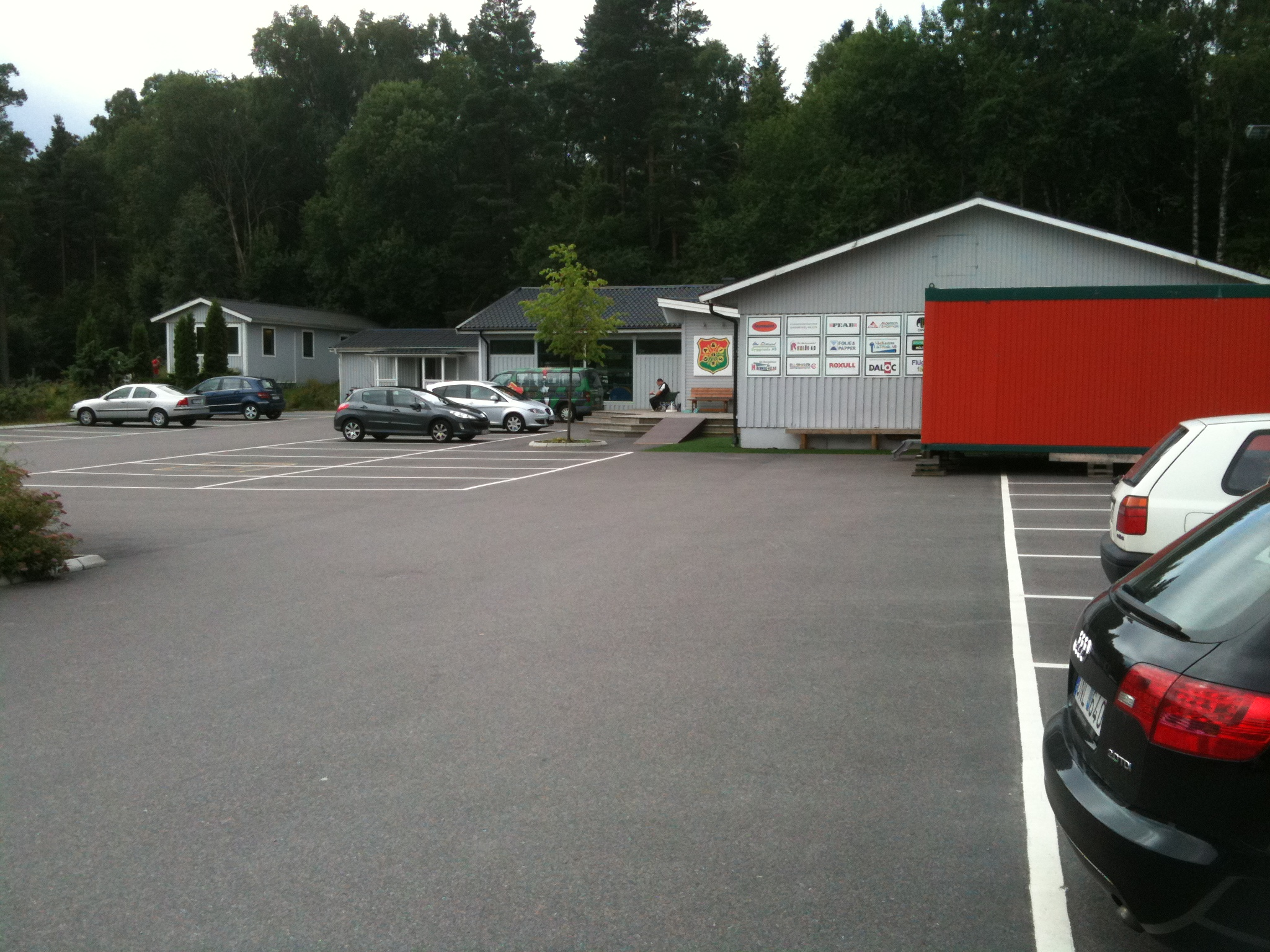 The training ground of the swedish footballteam GAIS.